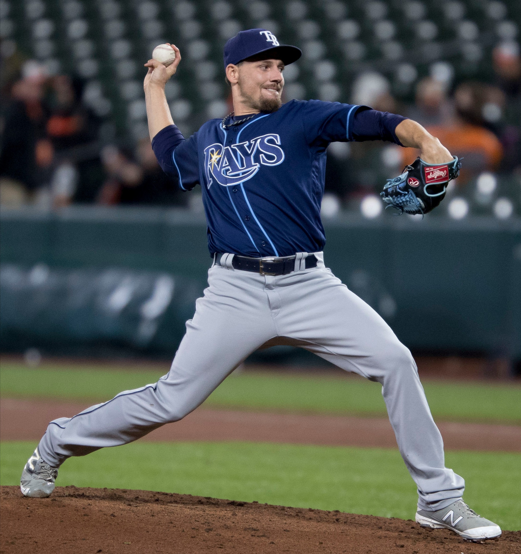 Rays at Orioles 4/25/17